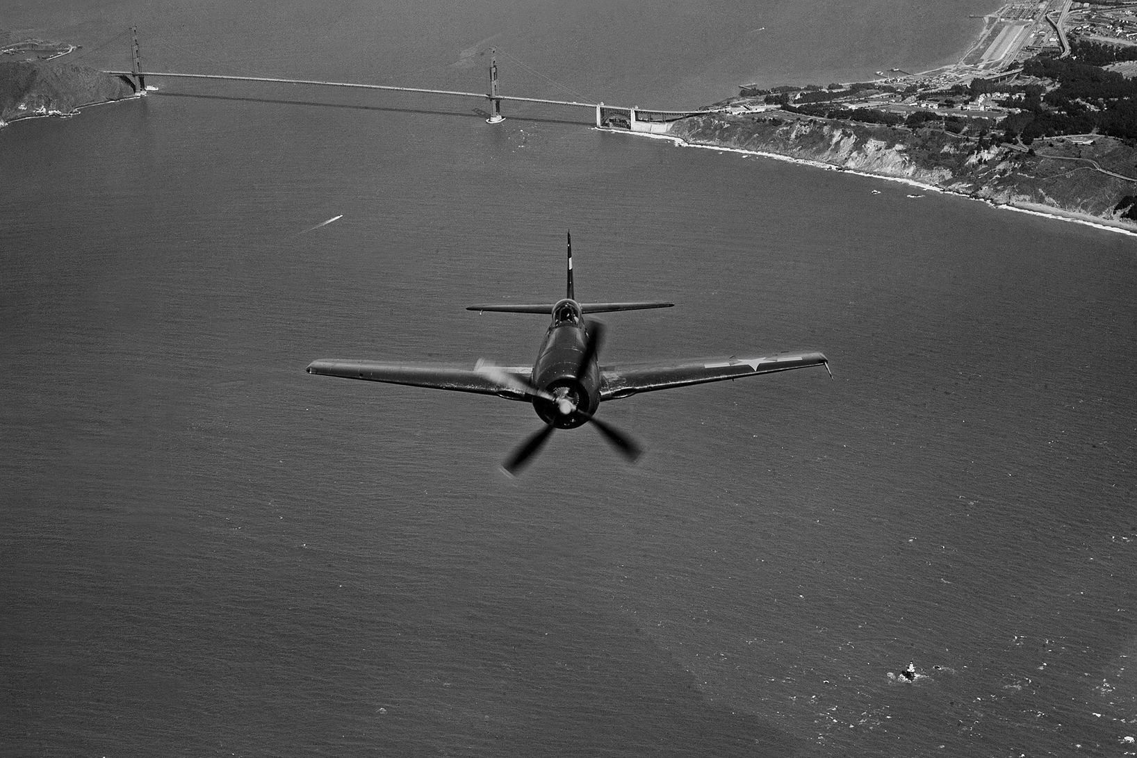 The Grumman F8F-1 Bearcat BuNo. 94819 was used by the National Advisory Committee for Aeronautics (NACA), Ames Research Center, Moffet Field, California (USA), from 2 April 1946 to 1 June 1953 to gain data on flying qualities, stability and control, and performance.